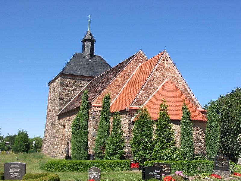 Stone church Bergholz with a stonespire in the whole broadness of the nave, built around 1200. The village Bergholz is an incorporated part of Belzig, the central town of the district Potsdam-Mittelmark in the state Brandenburg of Germany. Belzig appertains to the natural preserve Naturpark Hoher Fläming.